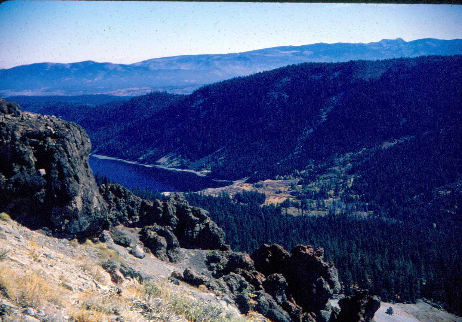 Independence Lake The Hole Jan 1967. CDFW file photo.